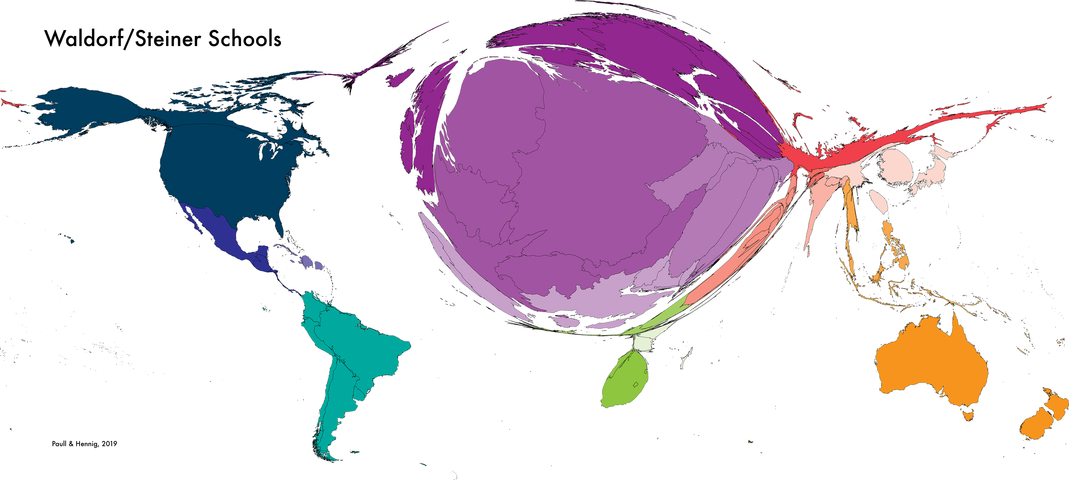 Citation: Paull, J., & Hennig, B. (2020). Rudolf Steiner Education and Waldorf Schools: Centenary World Maps of the Global Diffusion of “the School of the Future”. Journal of Social Sciences and Humanities, 6(1), 24-33. Link